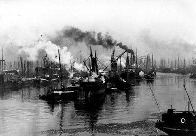 Picturesque image Rotterdam Maashaven port, with many smoke plumes from steam ships, 1907.